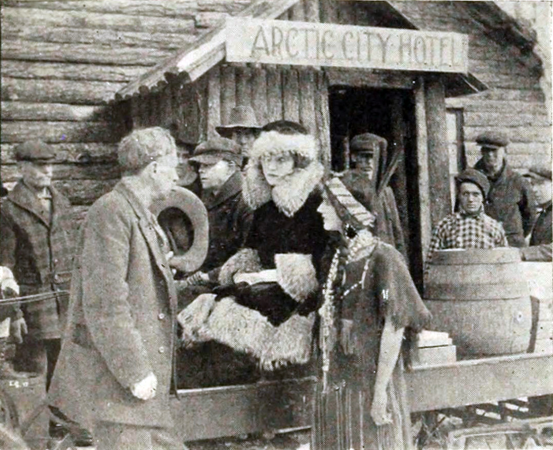 Alice Brady (center) in a film still ilustrating an article from The Moving Picture World